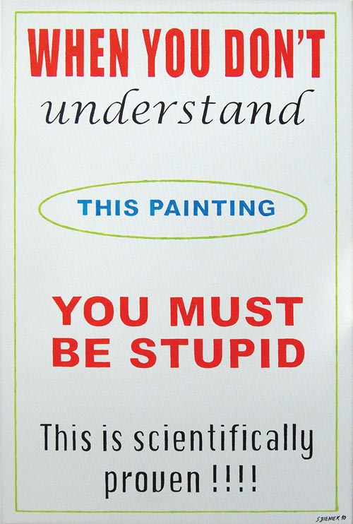 Sebastian Bieniek, 2010, "The Scientifically Proven Painting". 80x 60cm. Oil on canvas.